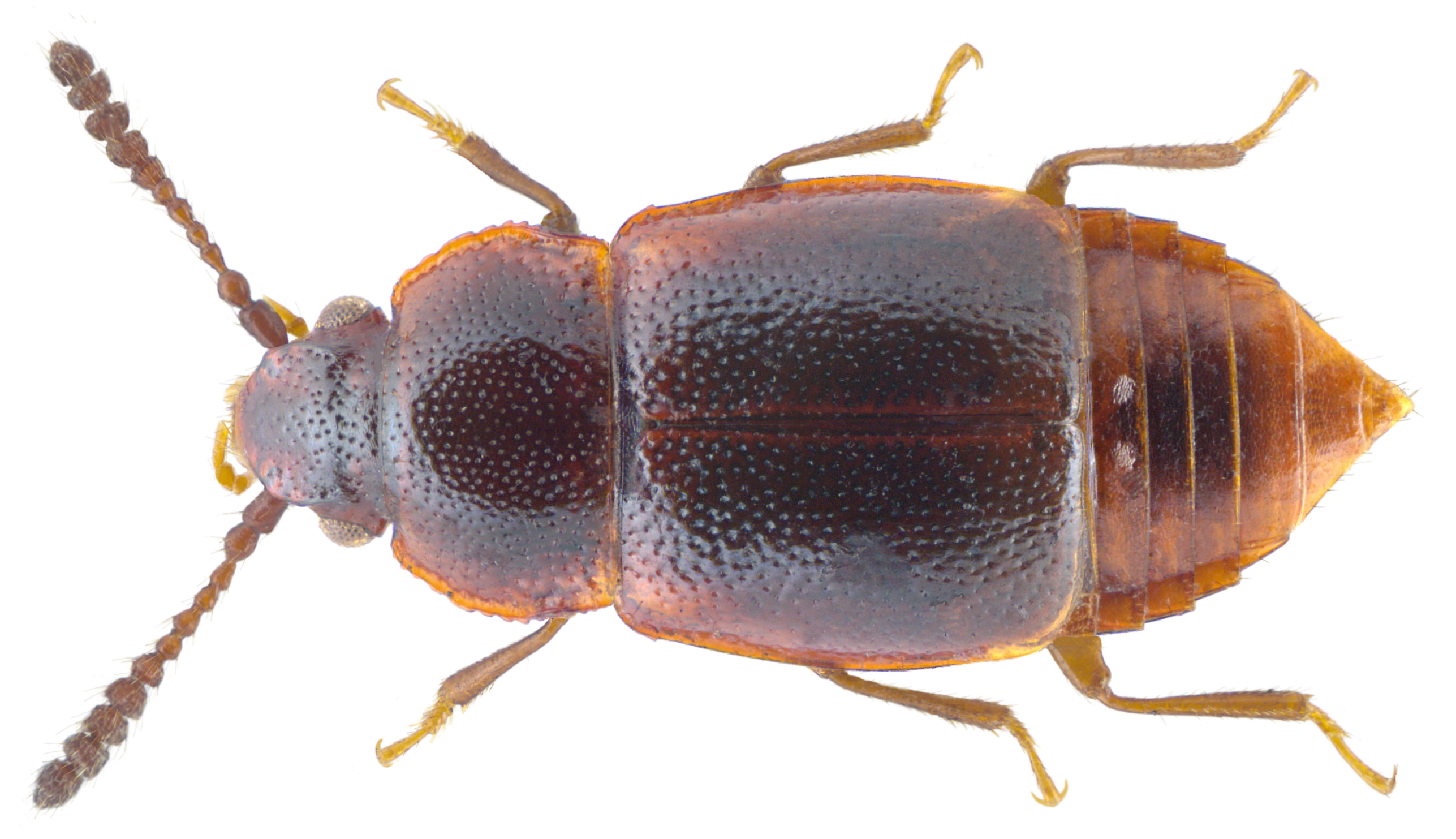 Family: Staphylinidae Size: 2,3 mm (2,0-2,5 mm) Origin: palaearctic Ecology: under rotten bark of deciduous trees Location: Austria, Kaernten, Karawanken, Ferlach, 1100 m leg.det. U.Schmidt, 14.IX.1982 Photo: U.Schmidt, 2013